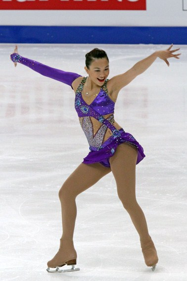 Tiffany Packard Yu at the 2011 Four Continents Championships.